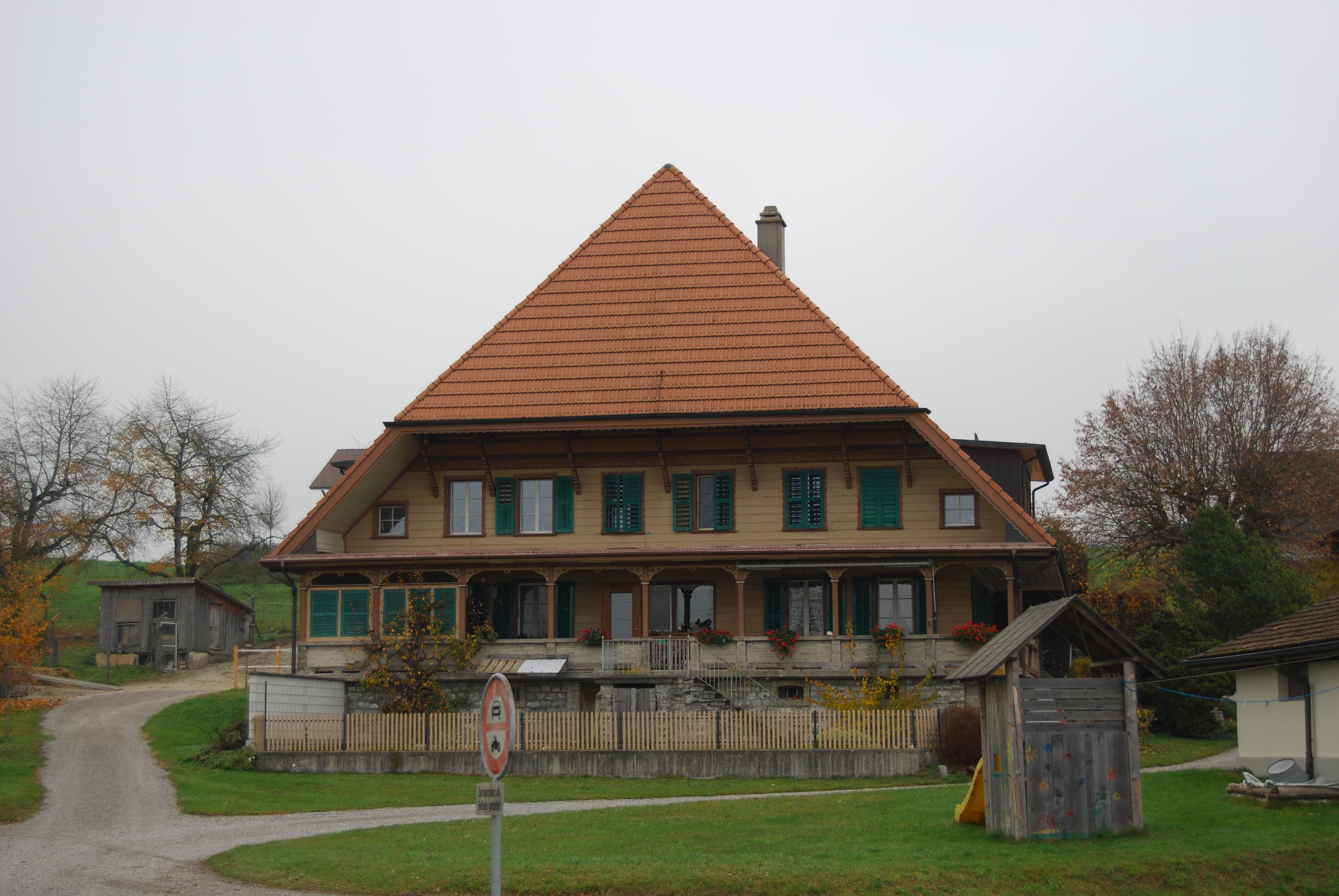 Deisswil bei Münchenbuchsee, canton of Bern, SwitzerlandEsperanto: Deisswil ĉe Münchenbuchsee, KantonoBerno, Svislando